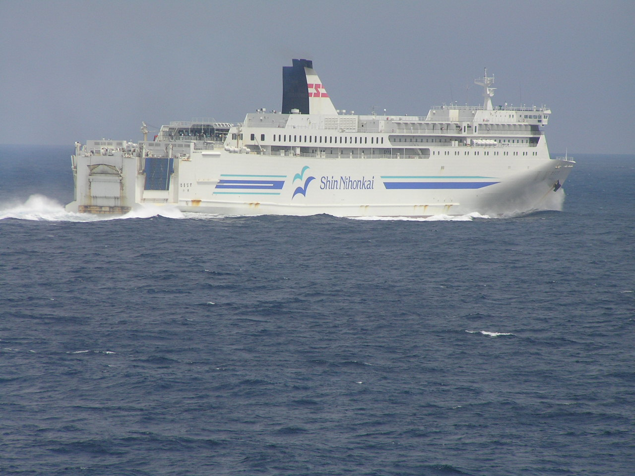 SHIN NIHONKAI はまなす 16810t